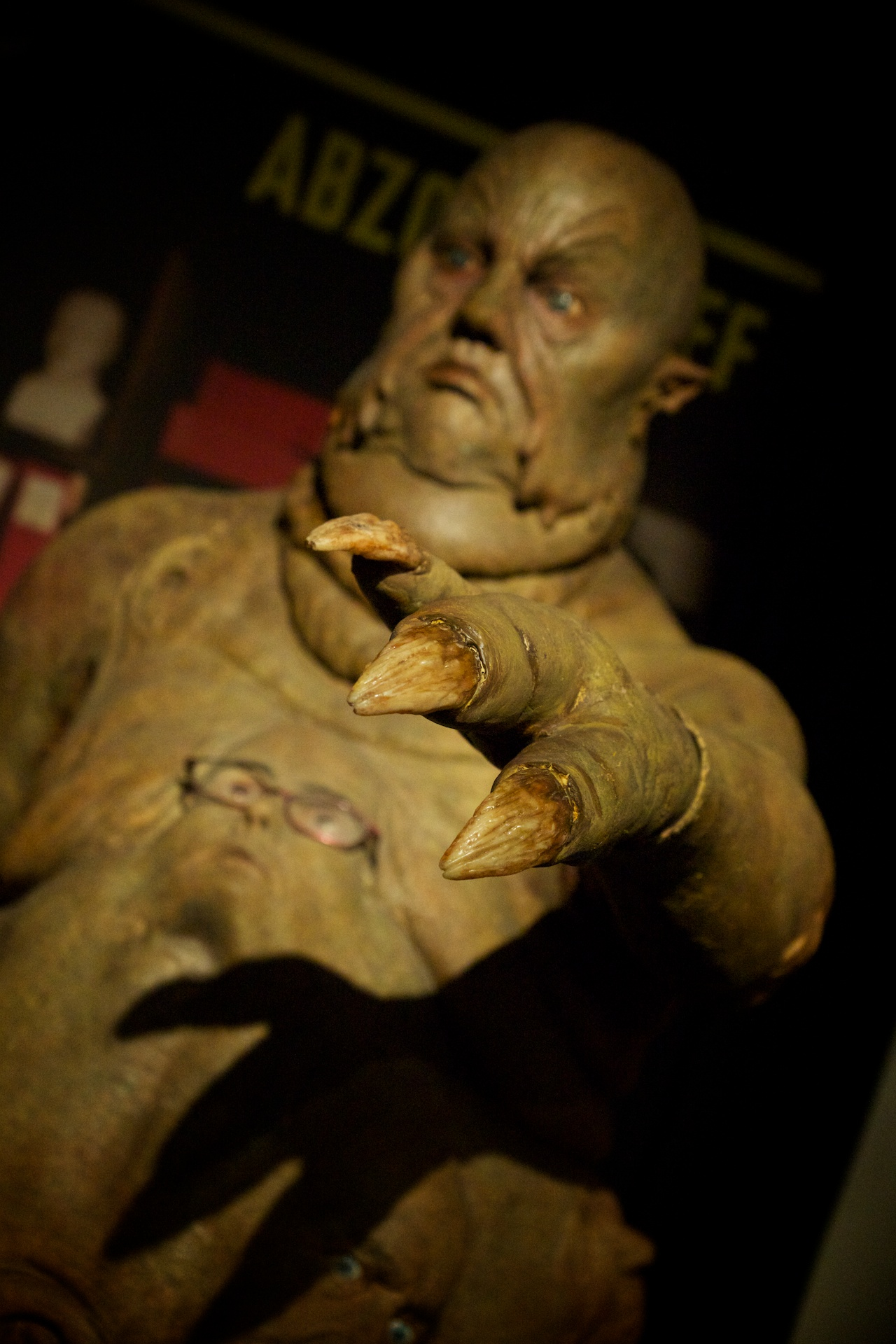 Doctor Who Experience Doctor Who Experience